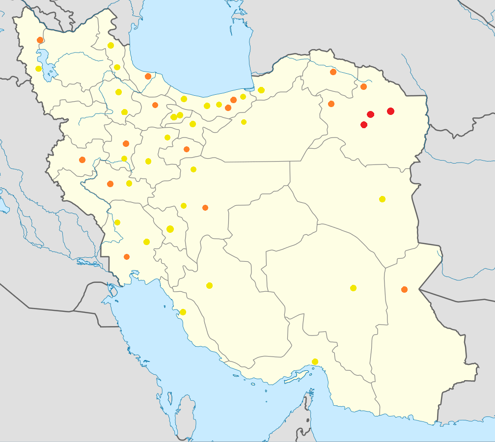 2017 Iranian protests by city: Red: December 28 Orange: December 29 Yellow:December 30